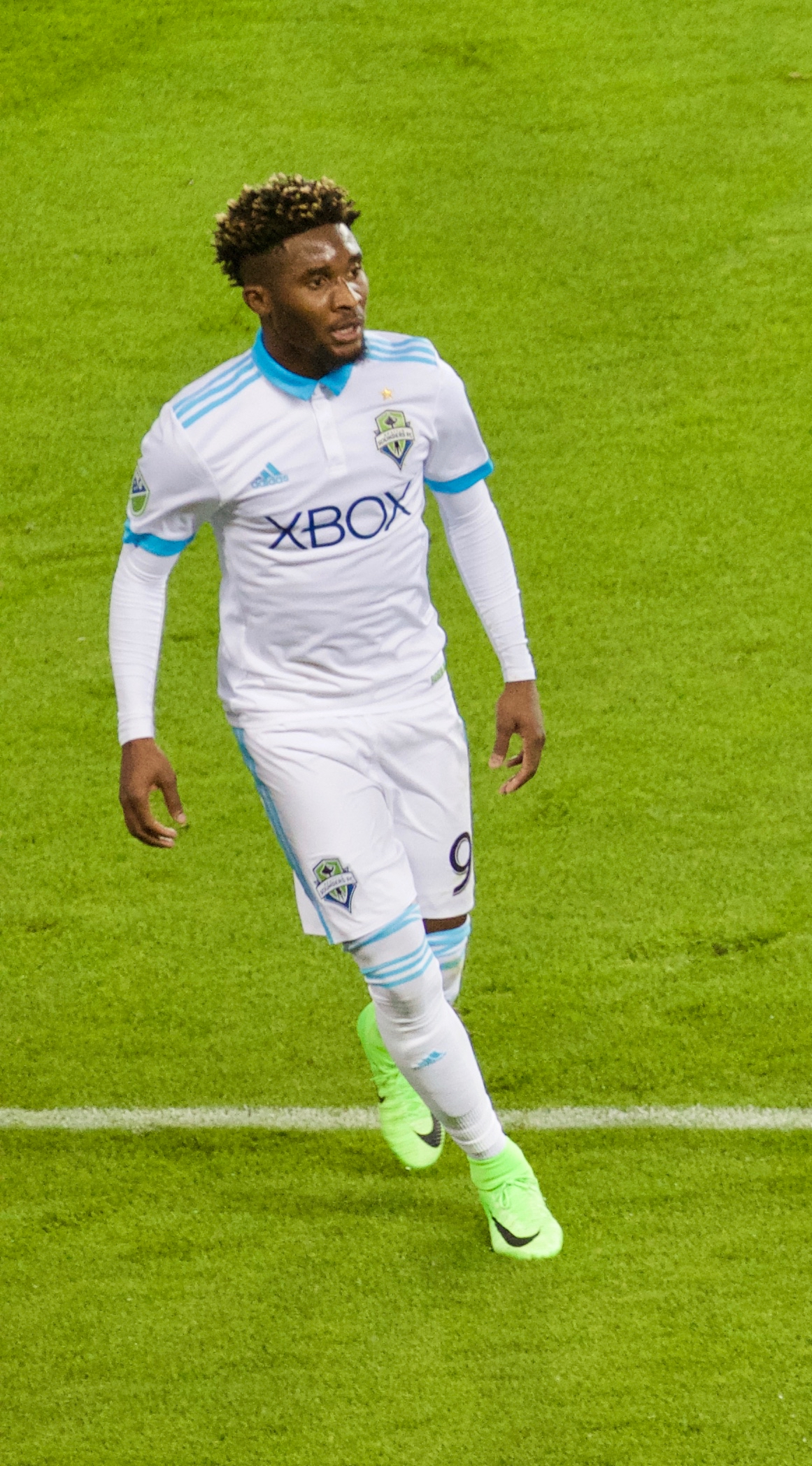 Oniel Fisher playing for Seattle Sounders at Avaya Stadium in San Jose, California, on 8 April 2017.